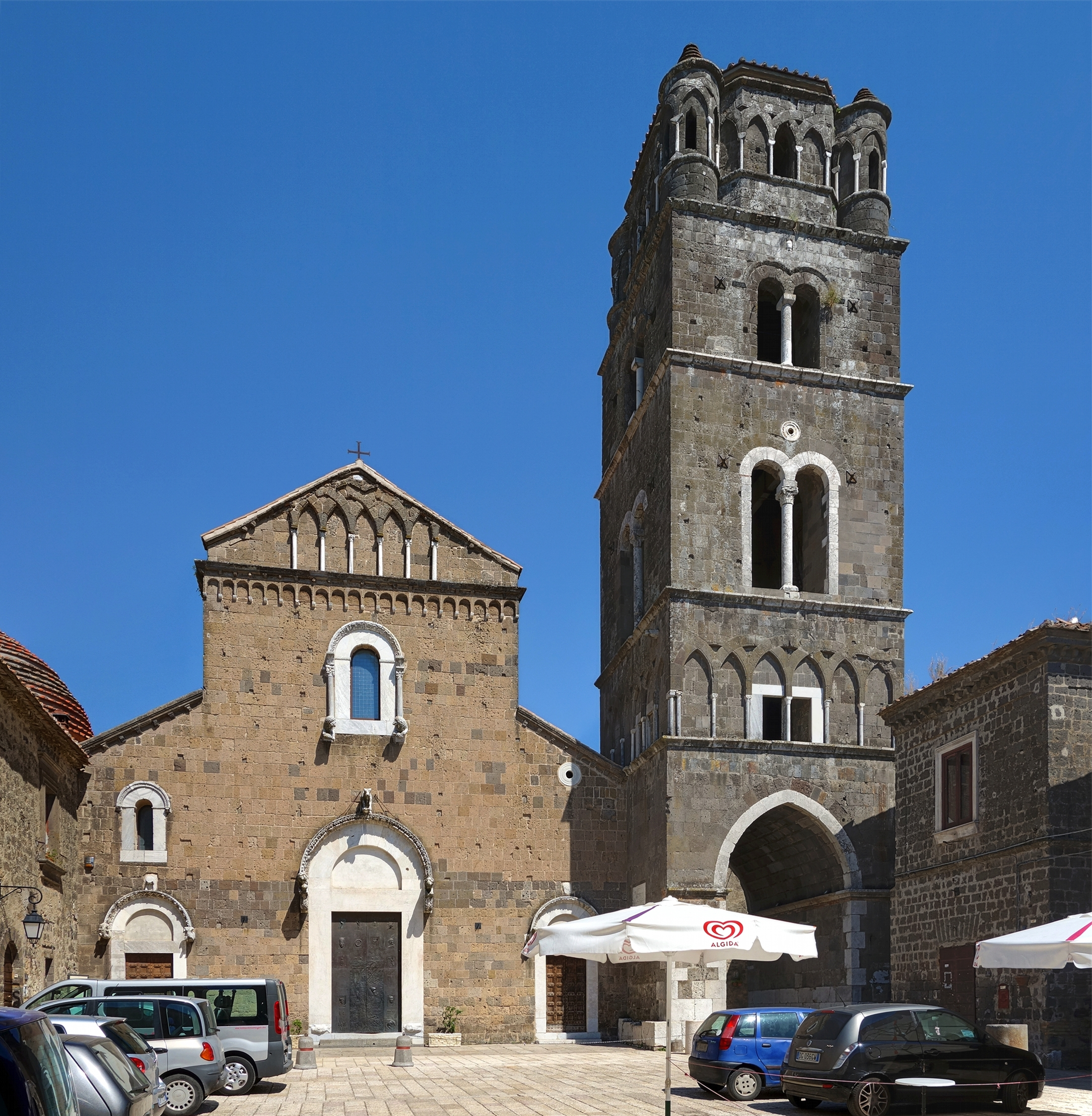 Cathedral of San Michele Arcangelo in Casertavecchia, Italy.